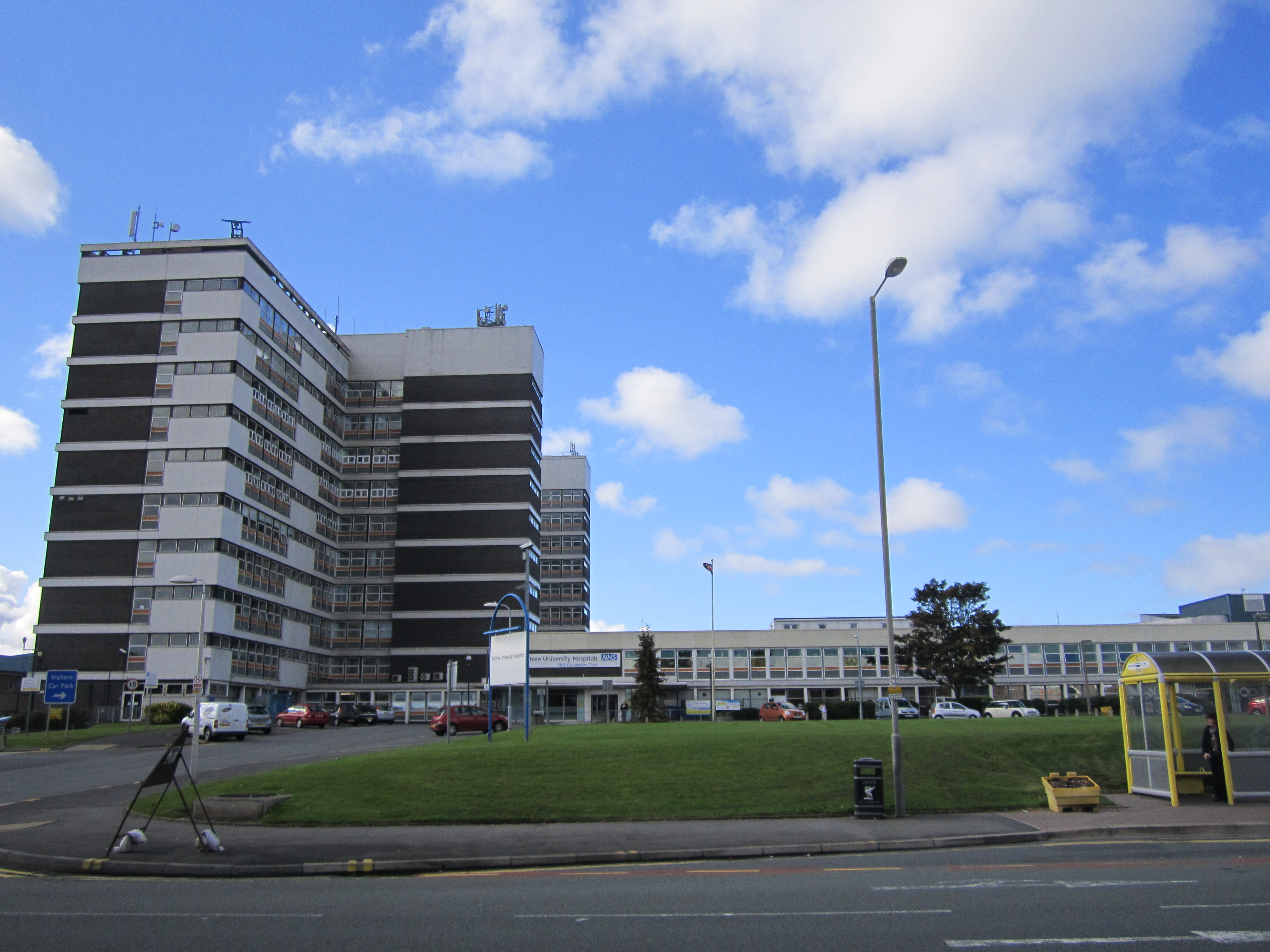 Aintree University Hospital, Lower Lane, Fazakerley, Liverpool, England.